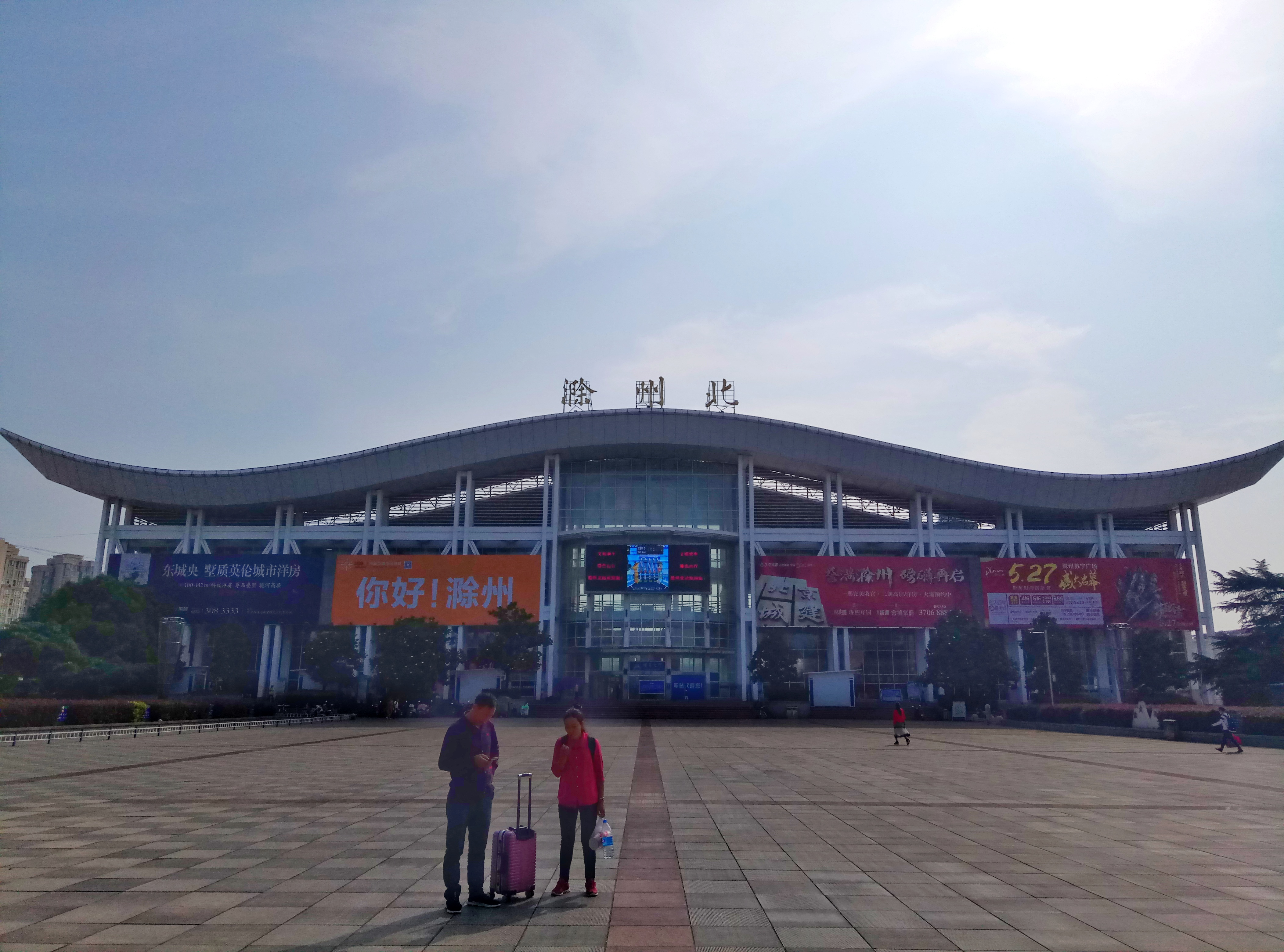 Chuzhoubei Railway Station